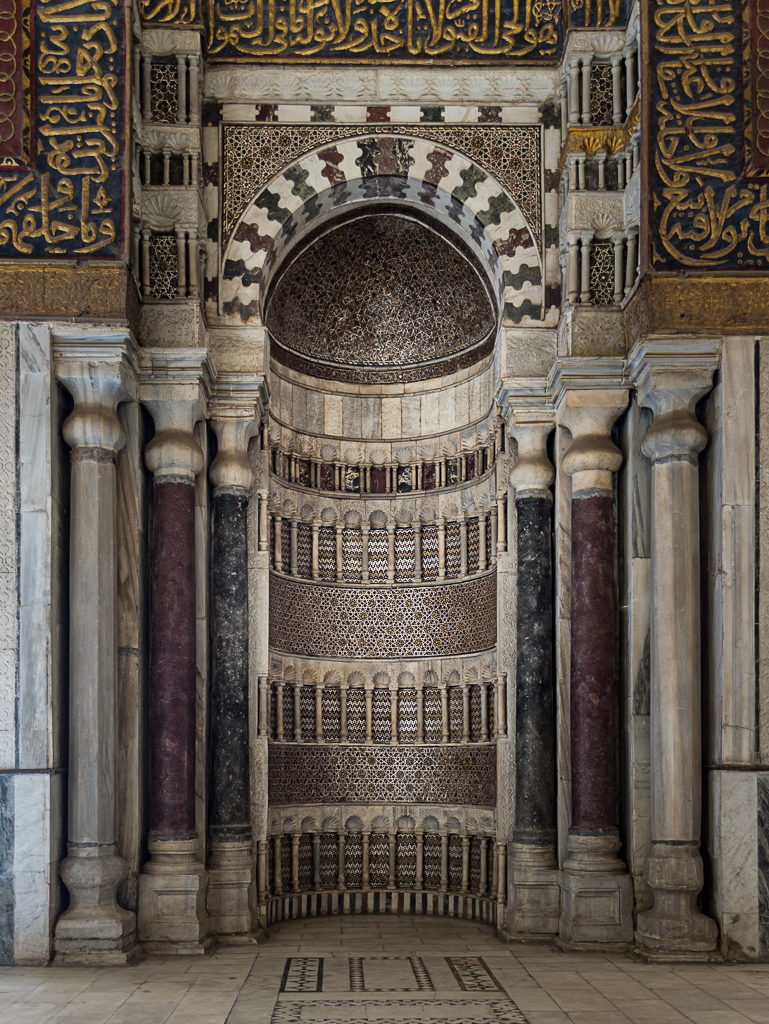 The Qalawun complex is a massive complex in Cairo, Egypt that includes a madrasa, a hospital and a mausoleum. It was built by the Sultan Al-Nasir Muhammad Ibn Qalawun in the 1280s